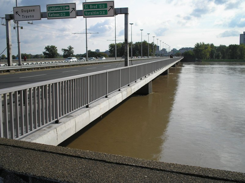 Youth BridgeHrvatski: Most mladosti.